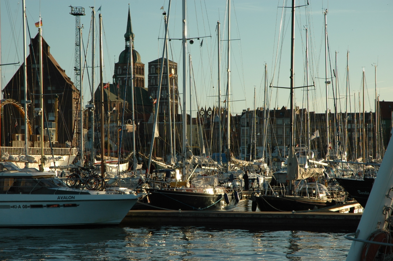 Photo of the harbour of Stralsund, Germany.